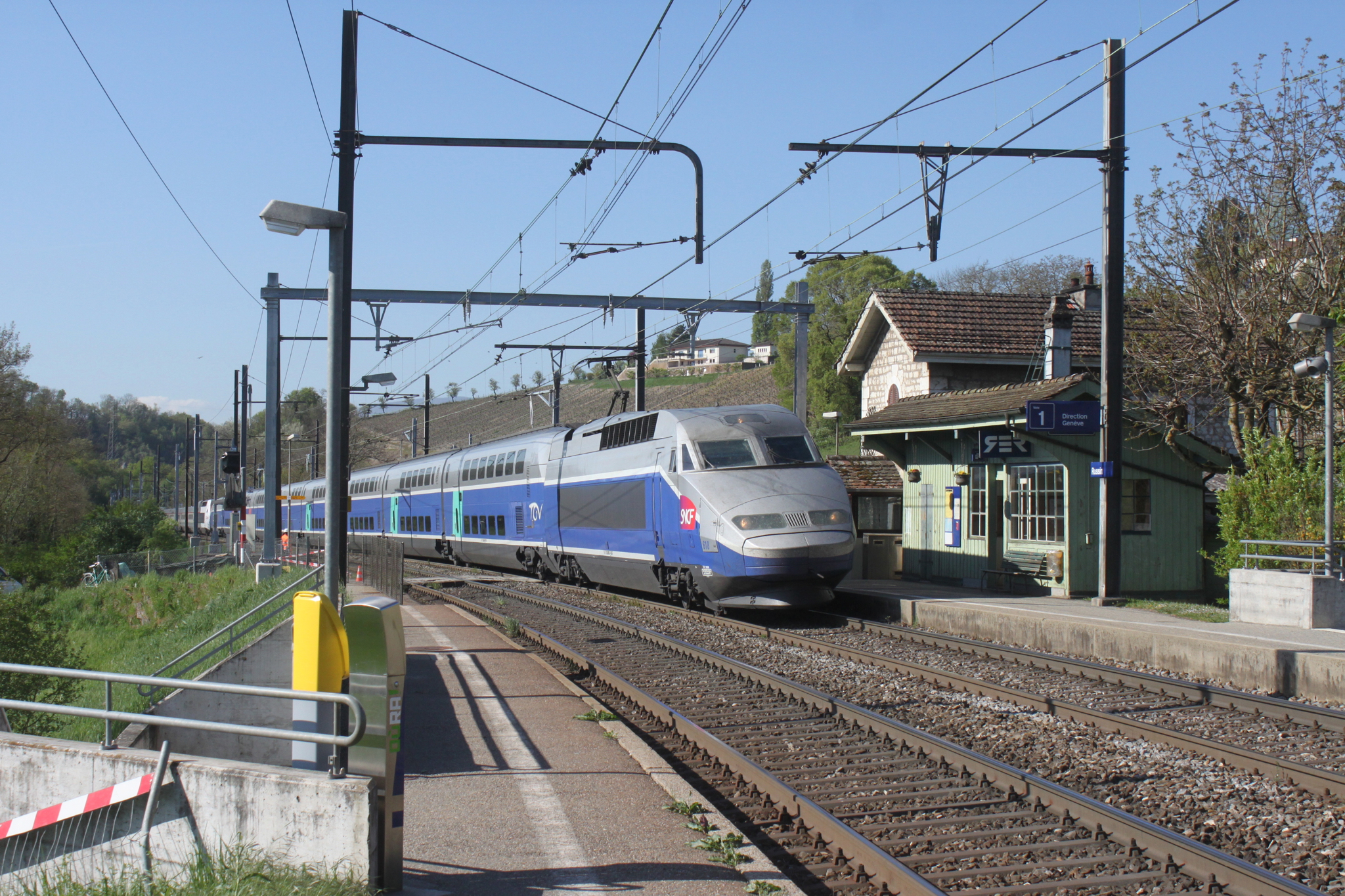 SNCF TGV Réseau Duplex #618 passing Russin train station.